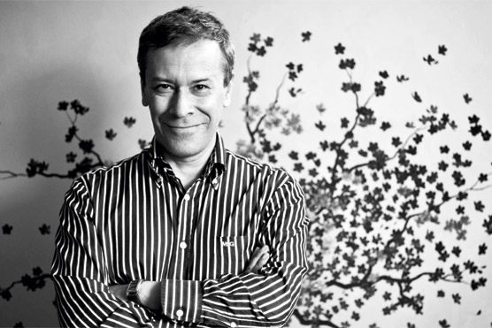 Portrait of the artist Pedro Ruiz